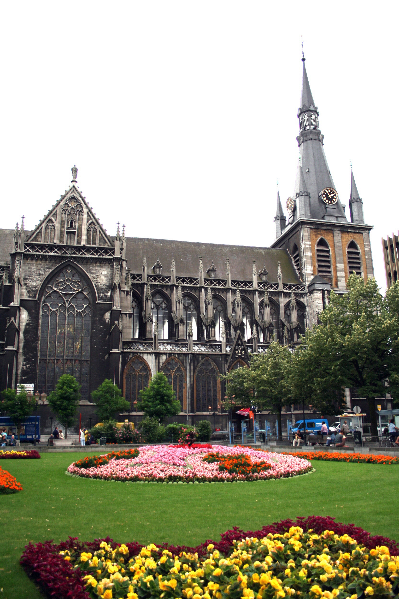 Liège (Belgium), the Cathedral Church of Saint Paul (XIII-XVth centuries).